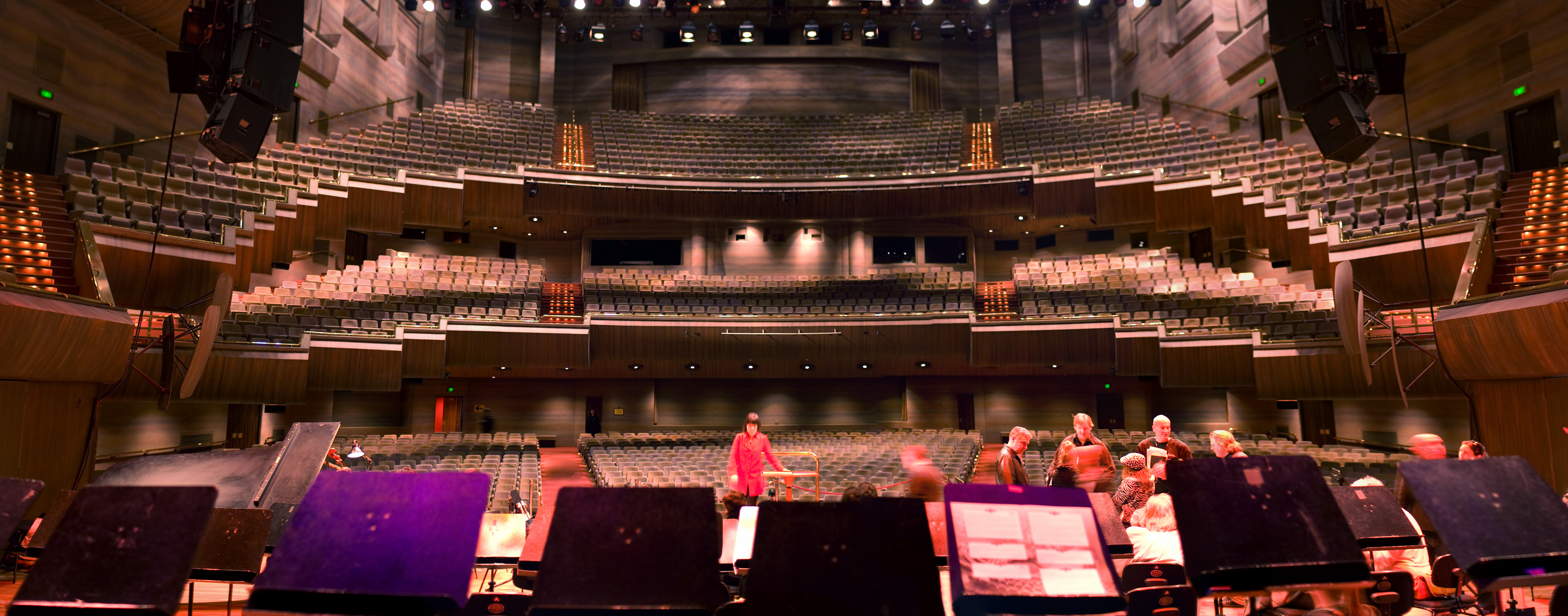 The interior of Hamer Hall, a concert hall in Melbourne, Australia, as viewed from the back of the stage. Five-shot panorama.